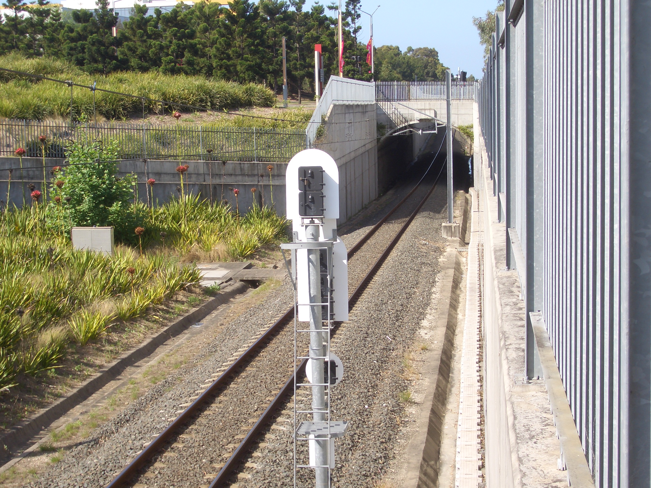 Sydney Olympic Park rail tunnel